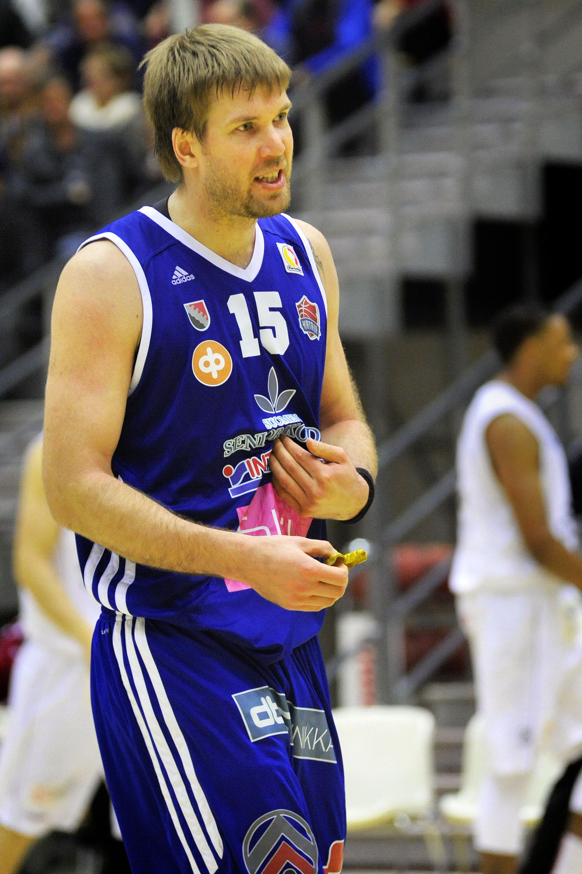 Finnish basketball player Sami Lehtoranta